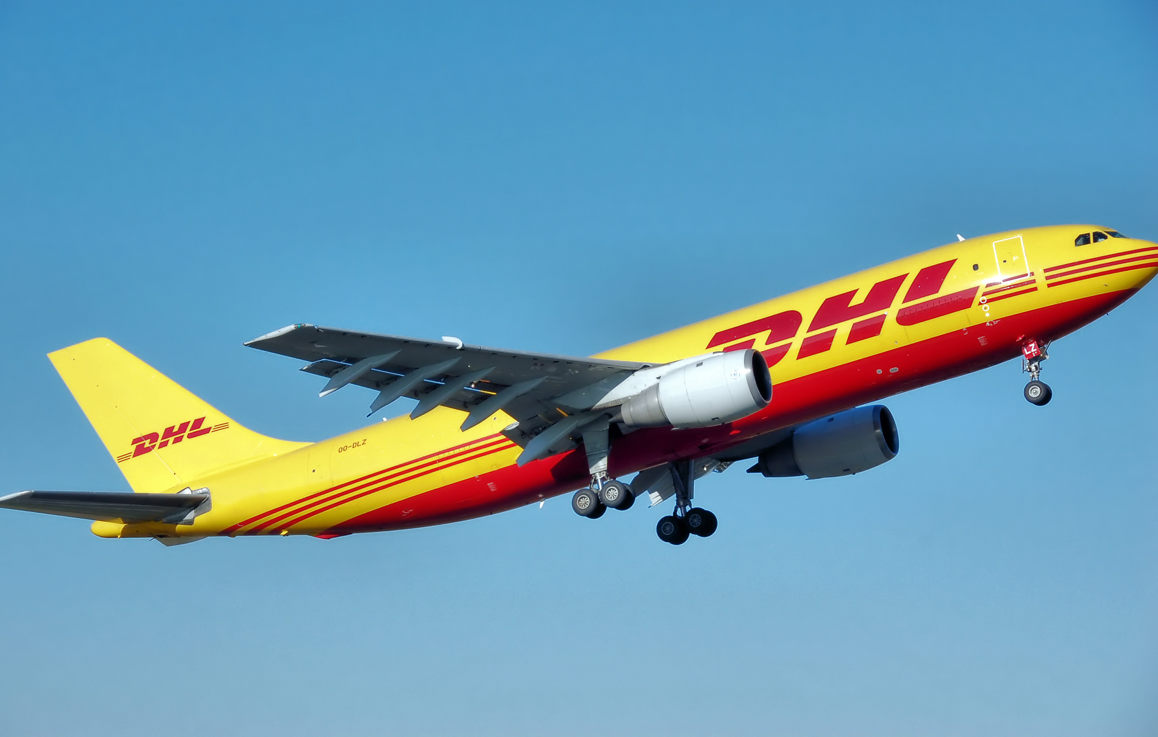 DHL Airbus A300B4-200 (OO-DLZ) of European Air Transport takes off from London Luton Airport, England.